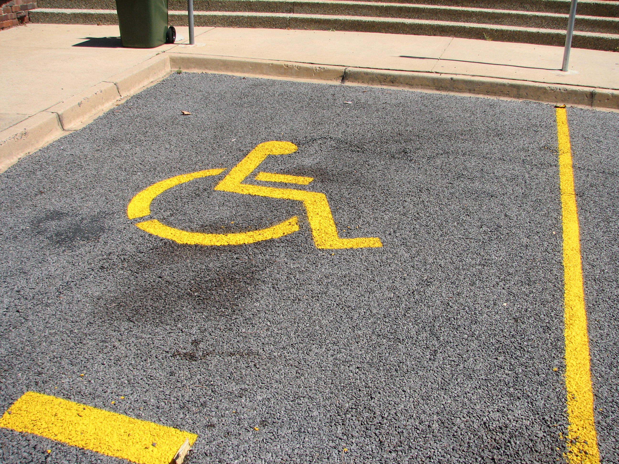 A disabled parking place in Torrens. Taken by me on 20th January 2007.